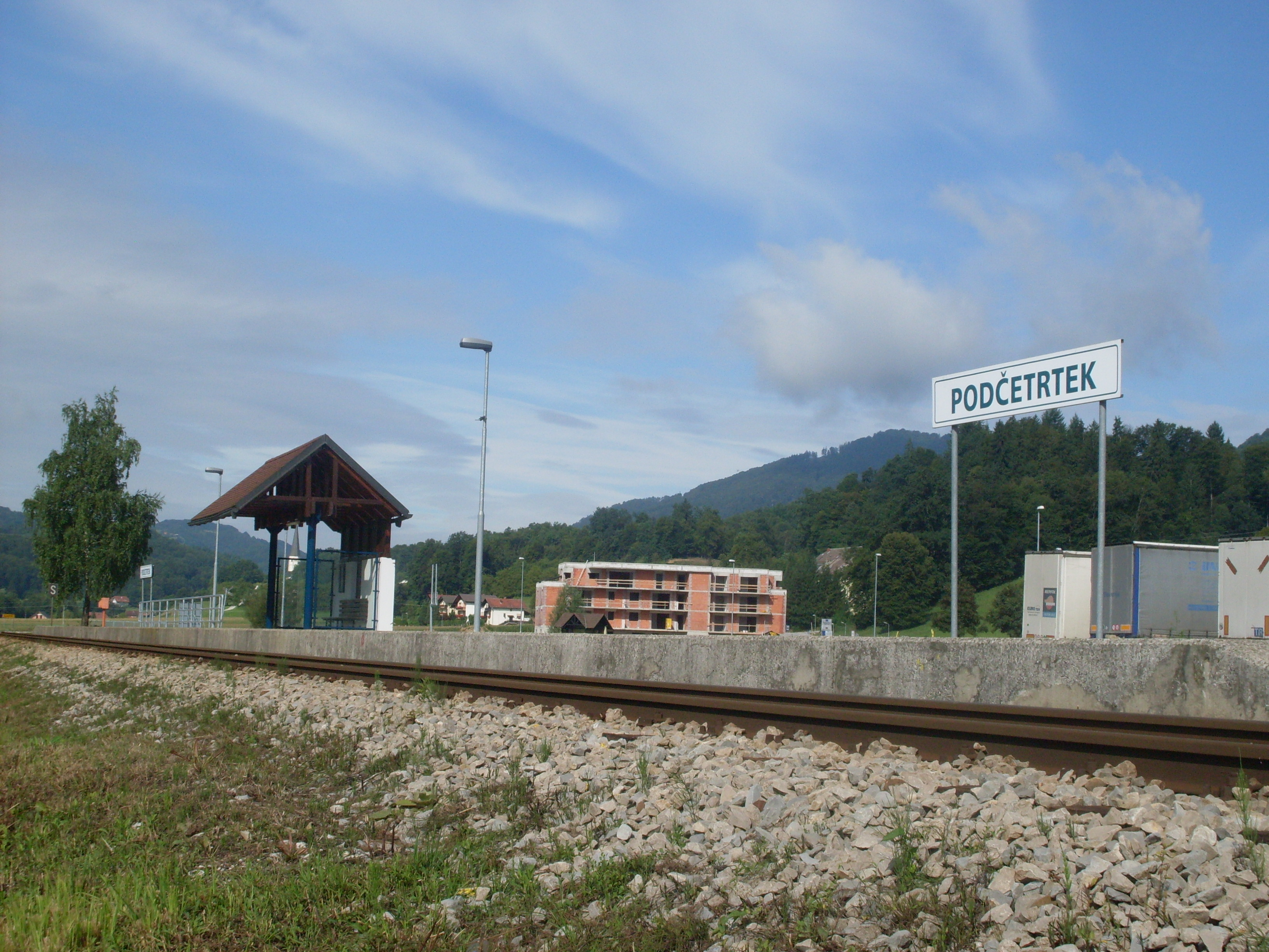 Railway halt in Podčetrtek (should not be confused with the railway halt Podčetrtek Toplice)